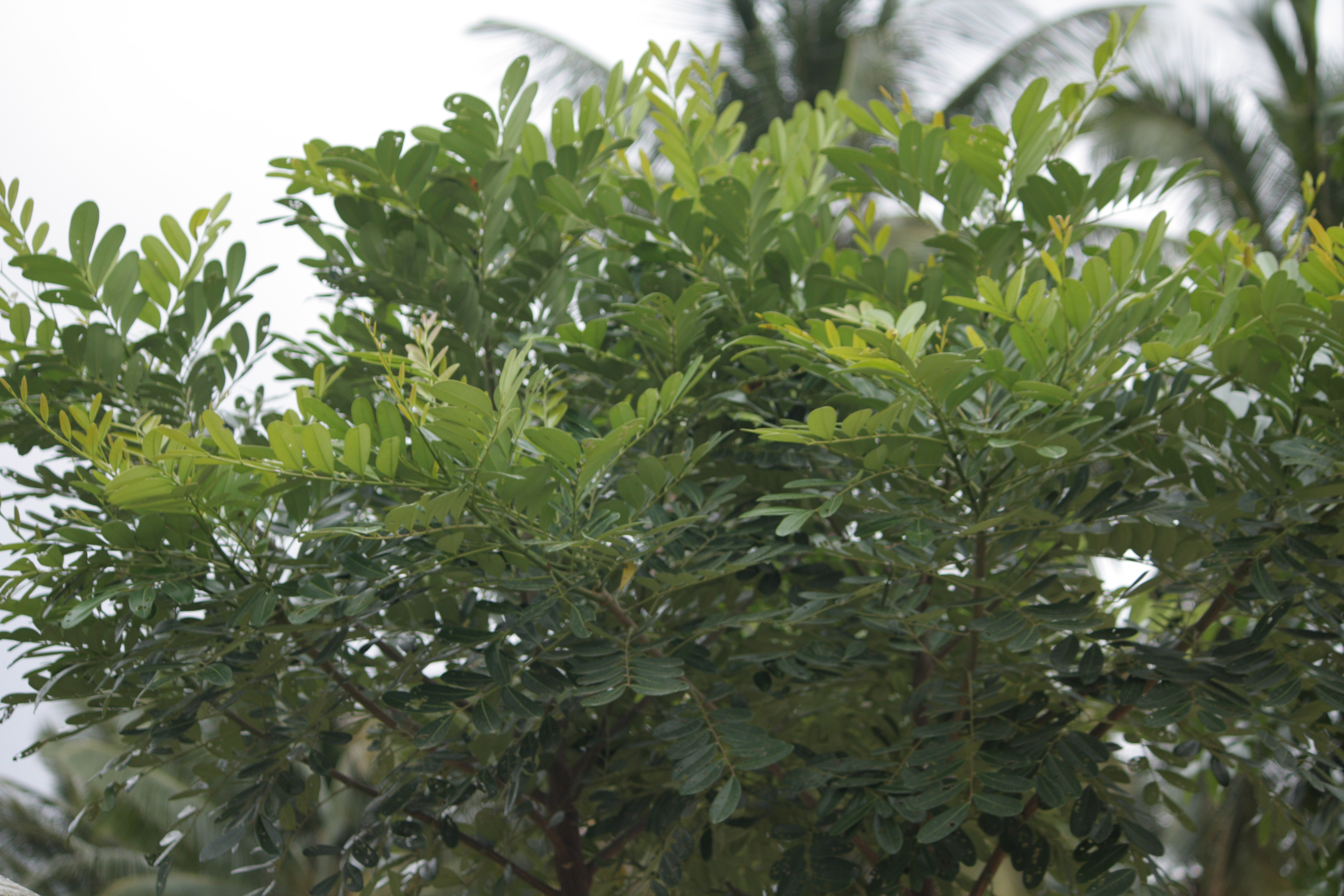 Paradise Tree